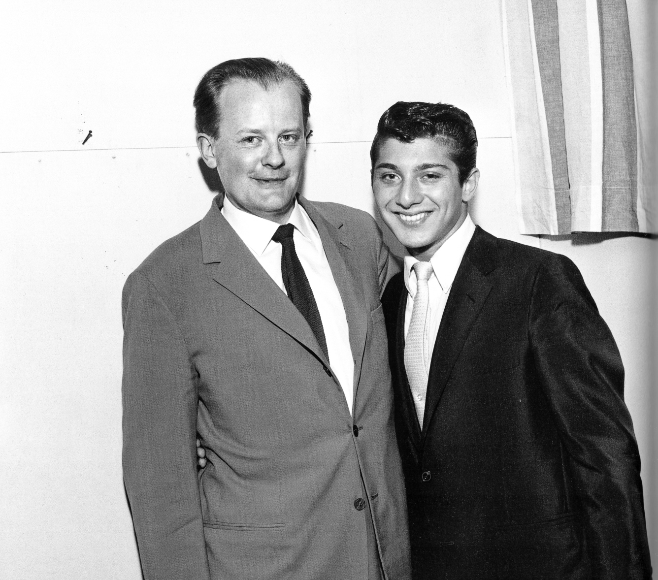 Photograph of the Finnish music promotor, announcer Paavo Einiö and singer Paul Anka at Linnanmäki amusement park in Helsinki.